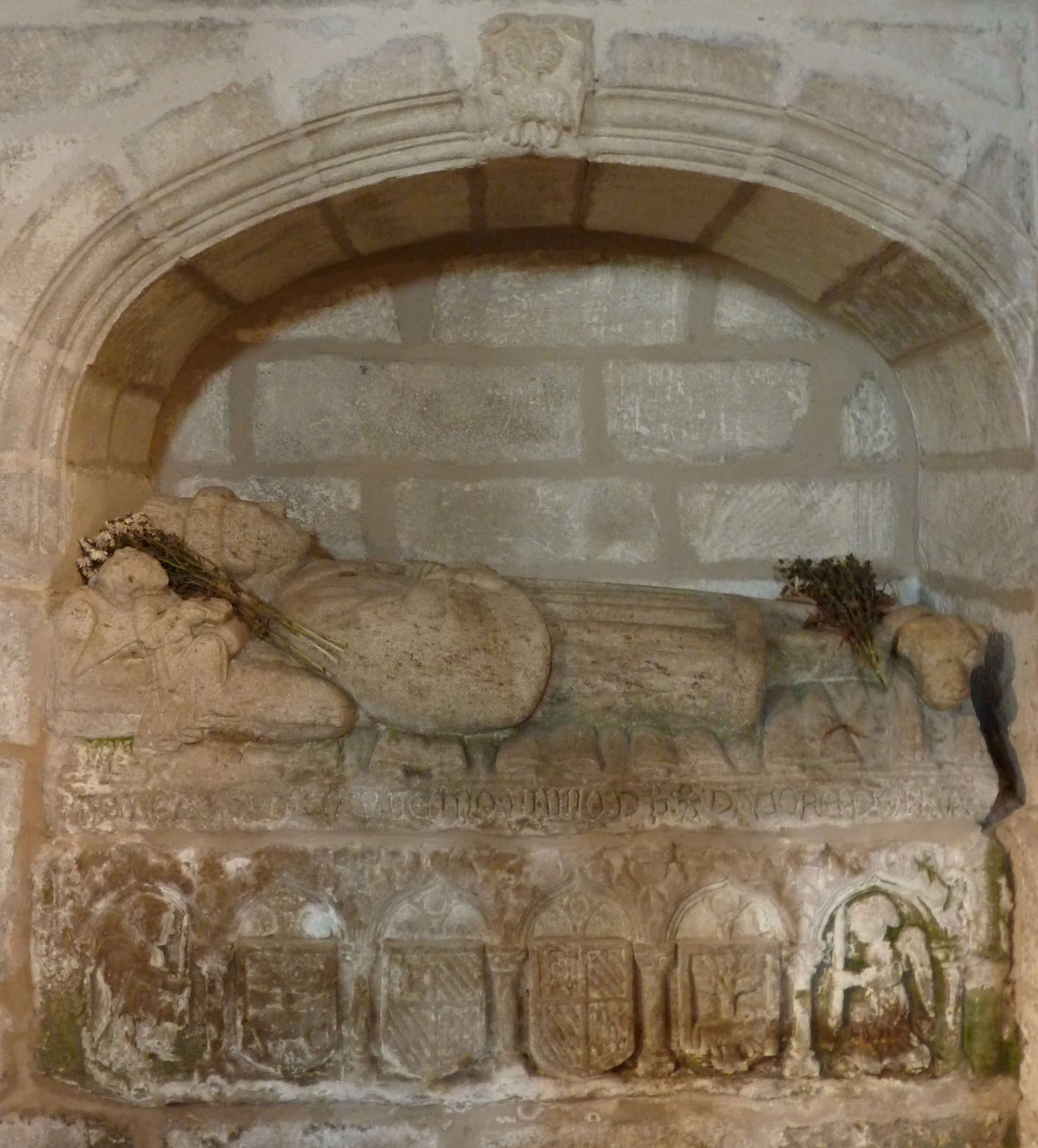 Tomb of the mechant Pero Carneiro. Church of Saint Mary, Noia.